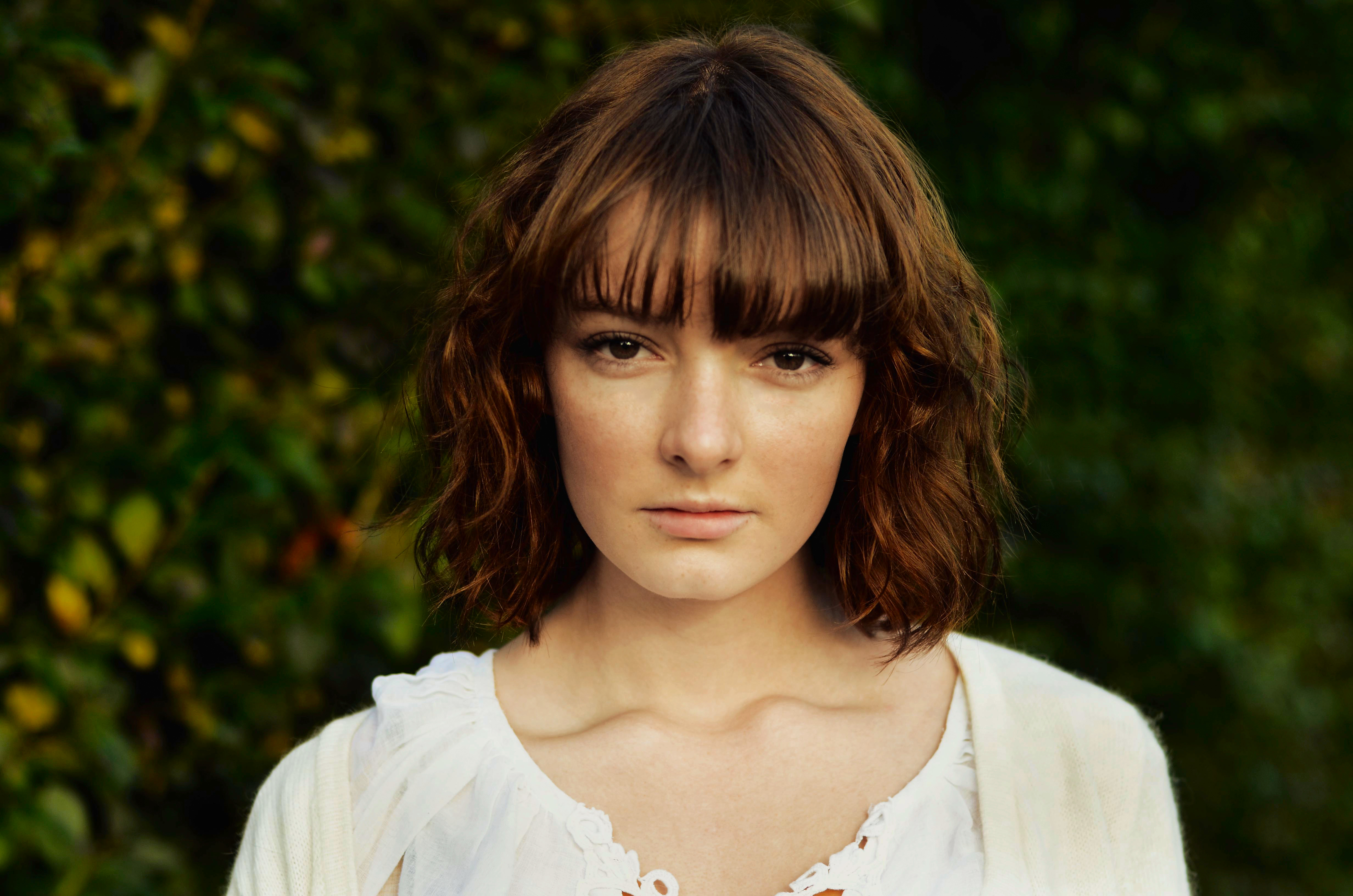 Portrait photograph of Dakota Blue Richards, photographed in 2012.